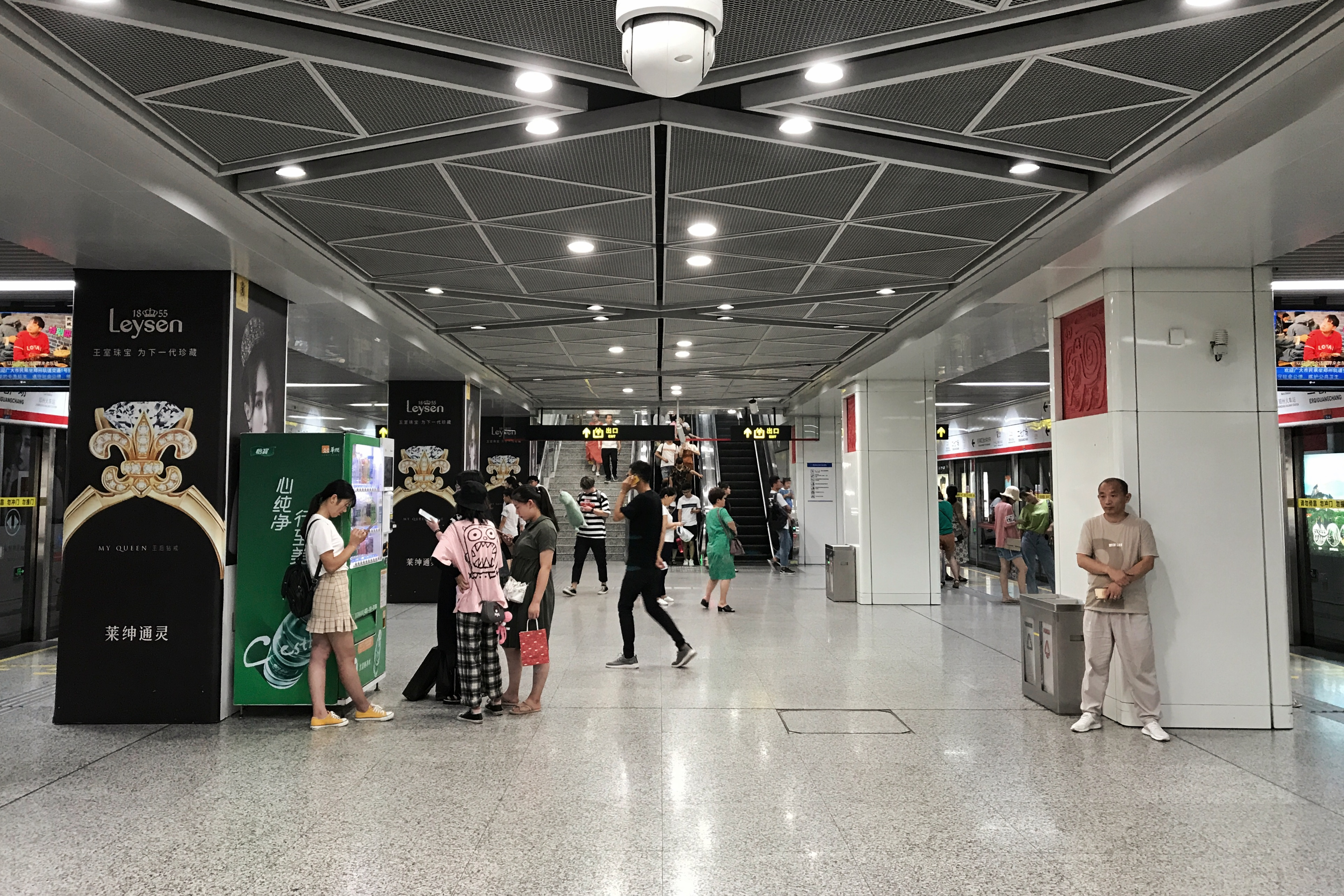 Platform of Erqiguangchang Station